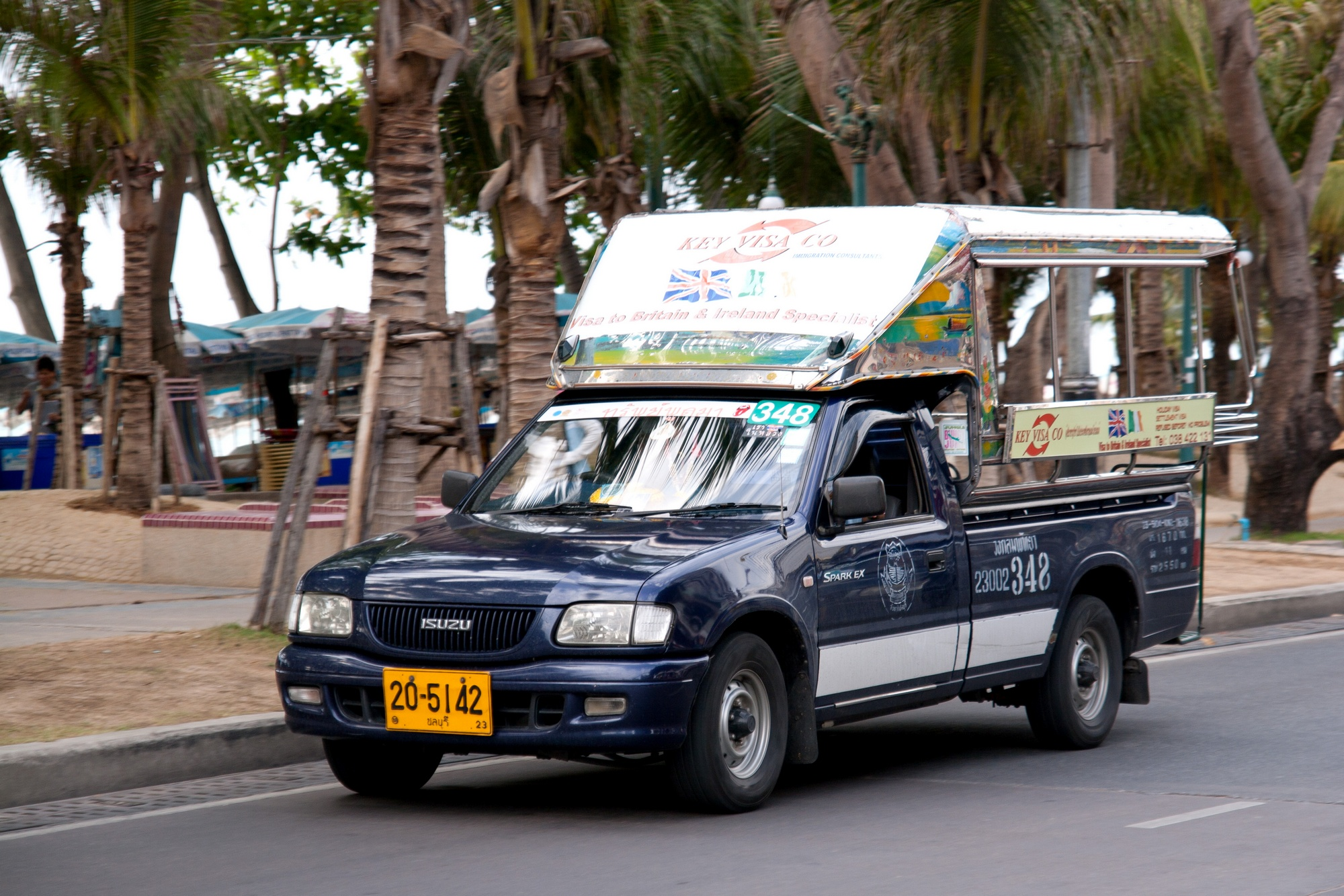 Songthaew on Beach Road, Pattaya, Thailand (Isuzu Spark)